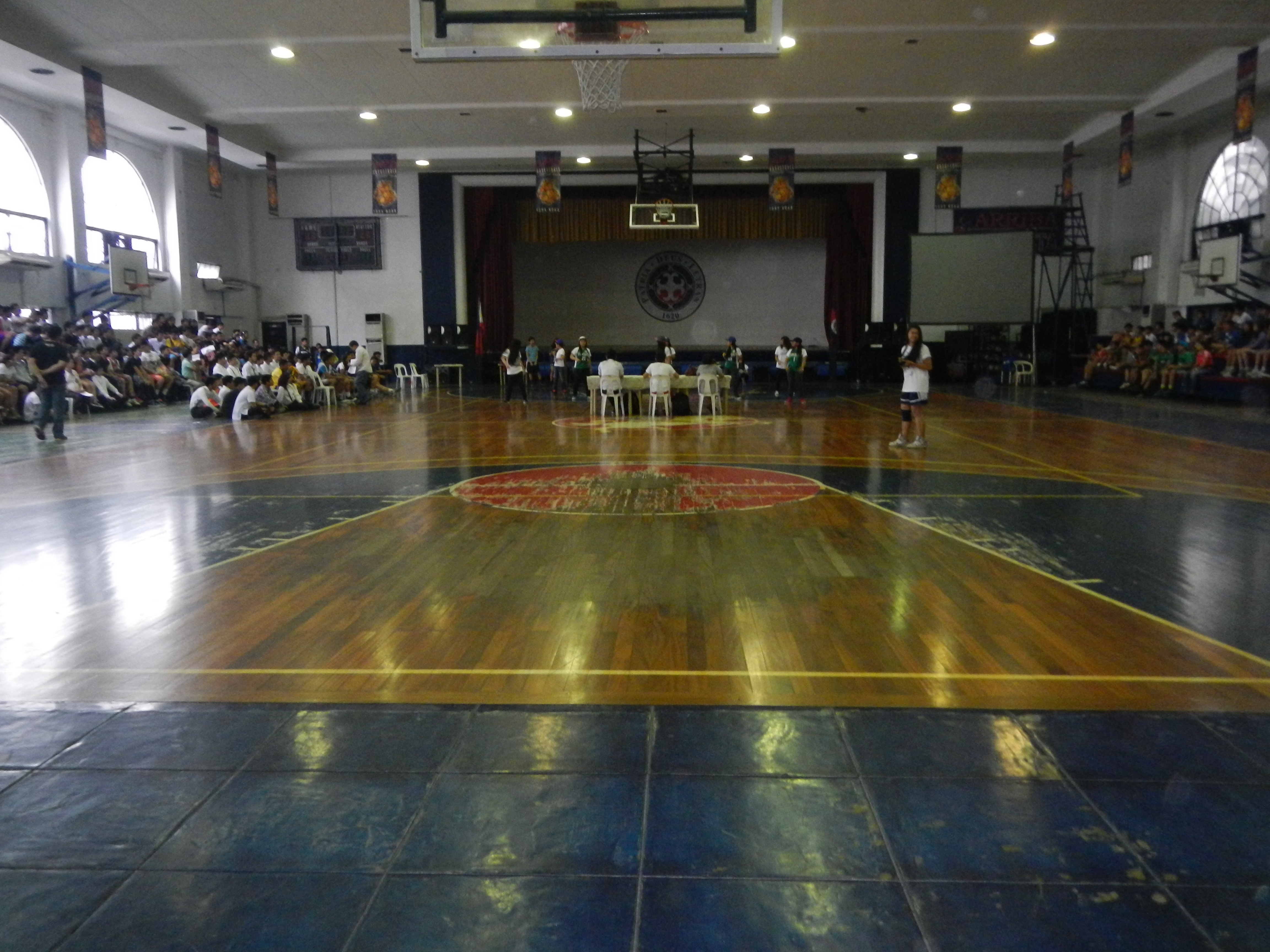 Upload Wizard photos of - the - a) Gymnasium, with the collection of its sports awards, medals, trophies and memorabilia of Colegio de San Juan de Letran, [1] - in memory of Don Juan Jeronimo Guerrero - Maltese cross[2] and Fray Diego de Santa Maria, O.P., 1620-1979 in May in 1632, Fray Diego de Santa Maria, O.P. arrived at the Sto. Domingo convent from Spain via Mexico; Philippines, the Maltese cross in Italy also known as the Amalfi cross, is part of the school seal of Colegio de San Juan de Letran founded by Don Juan Alonso Jeronimo Guerrero, a retired Spanish officer and one of the Knights of Malta - and Fray Diego de Santa Maria, O.P., a Dominican brother, also a part of the pendant of the Quezon Service Cross, which is the highest honor that can be conferred in the Republic and c) Puerta de Isabel II, 1861 - Intramuros, Intramuros Golf Club, Intramuros City Walls - Gates of Intramuros [3] Intramuros entrance on Gen. Luna Street, the Bastion of San Diego constructed in 1644, the defensive walls of Intramuros and Muralla Street - Gate facing the south Puerta Real Gardens the original Real Gate (Royal Gate) was built in 1663 at the end of Calle Real de Palacio now General Luna St. and was used exclusively by the Governor-General for state occasions was located west of Baluarte de San Andres and faced the old village of Bagumbayan.